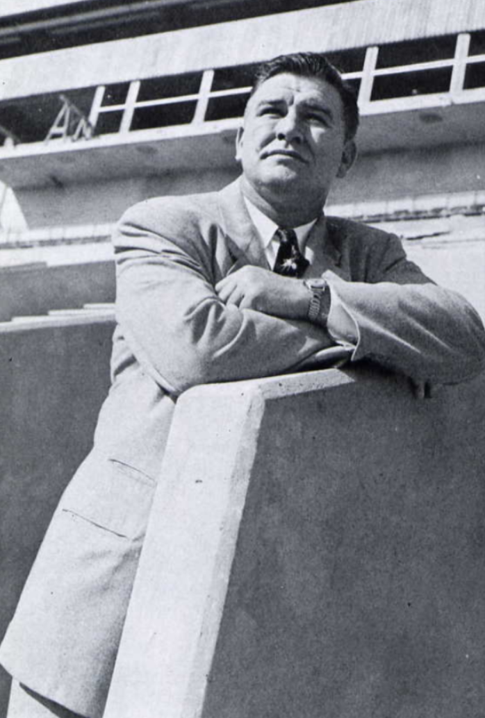 Photograph of Bob Woodruff